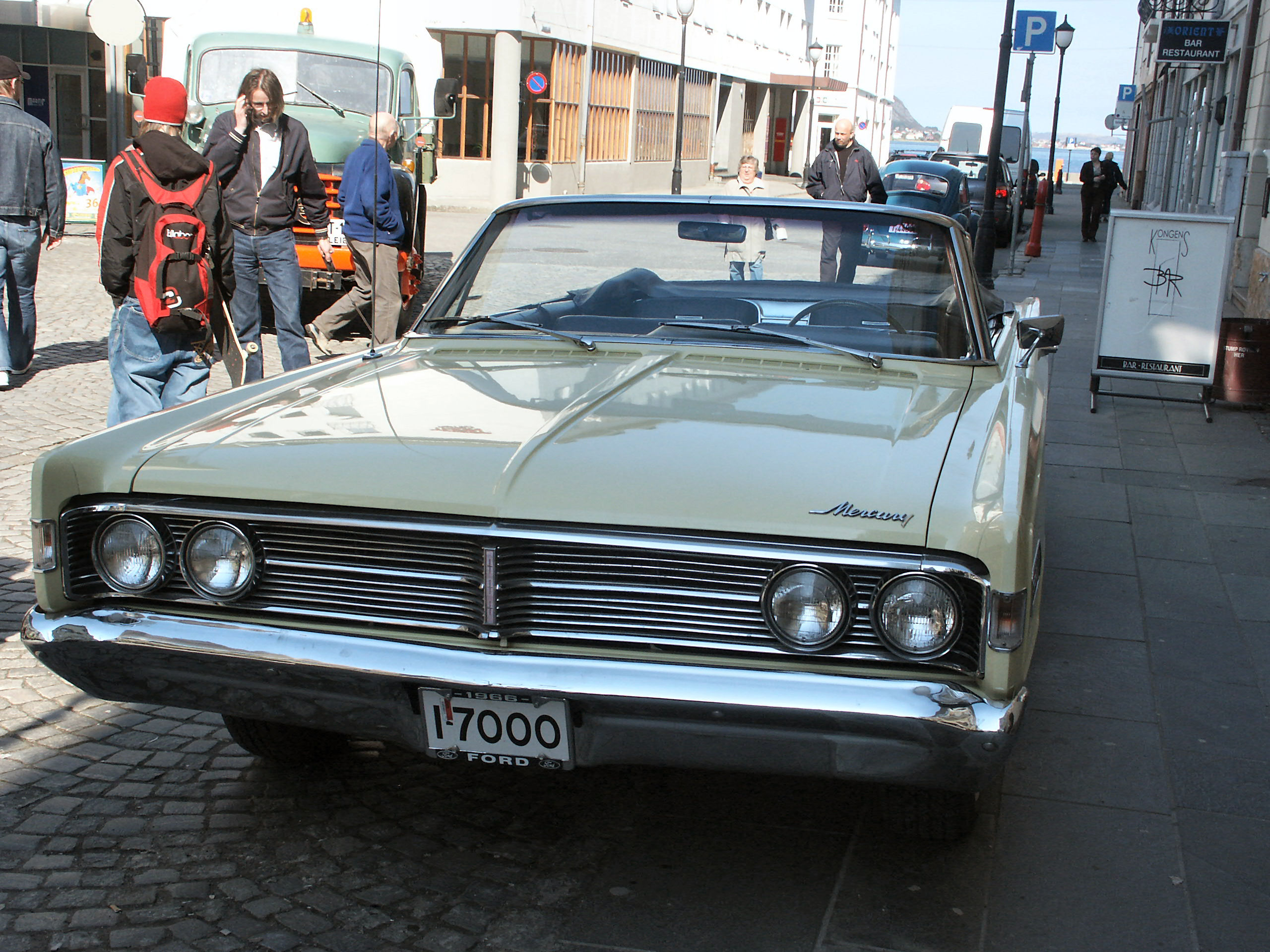 1966 Mercury Monterey 2-Door Convertible in Ålesund, Norway